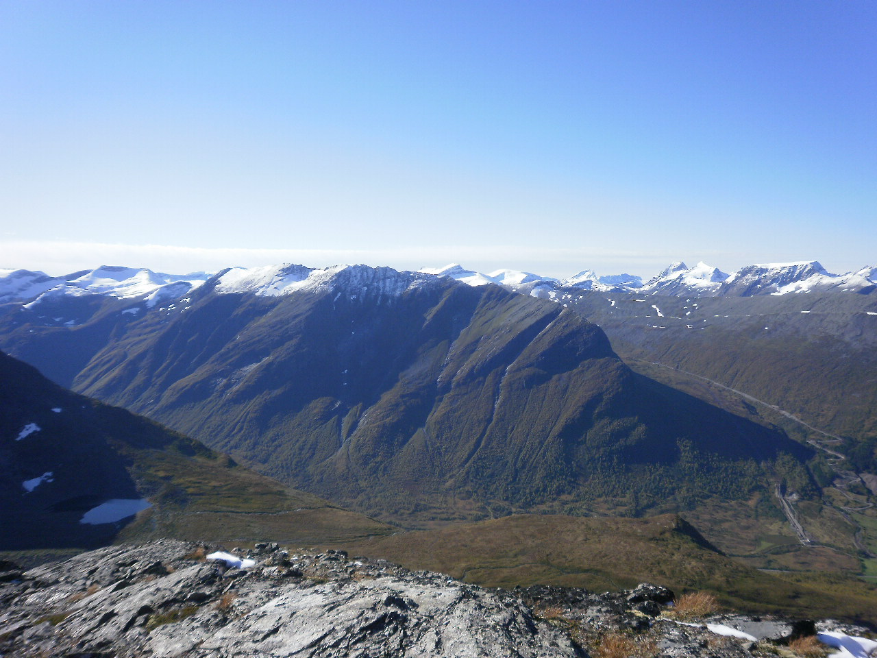 Mountains in Norway